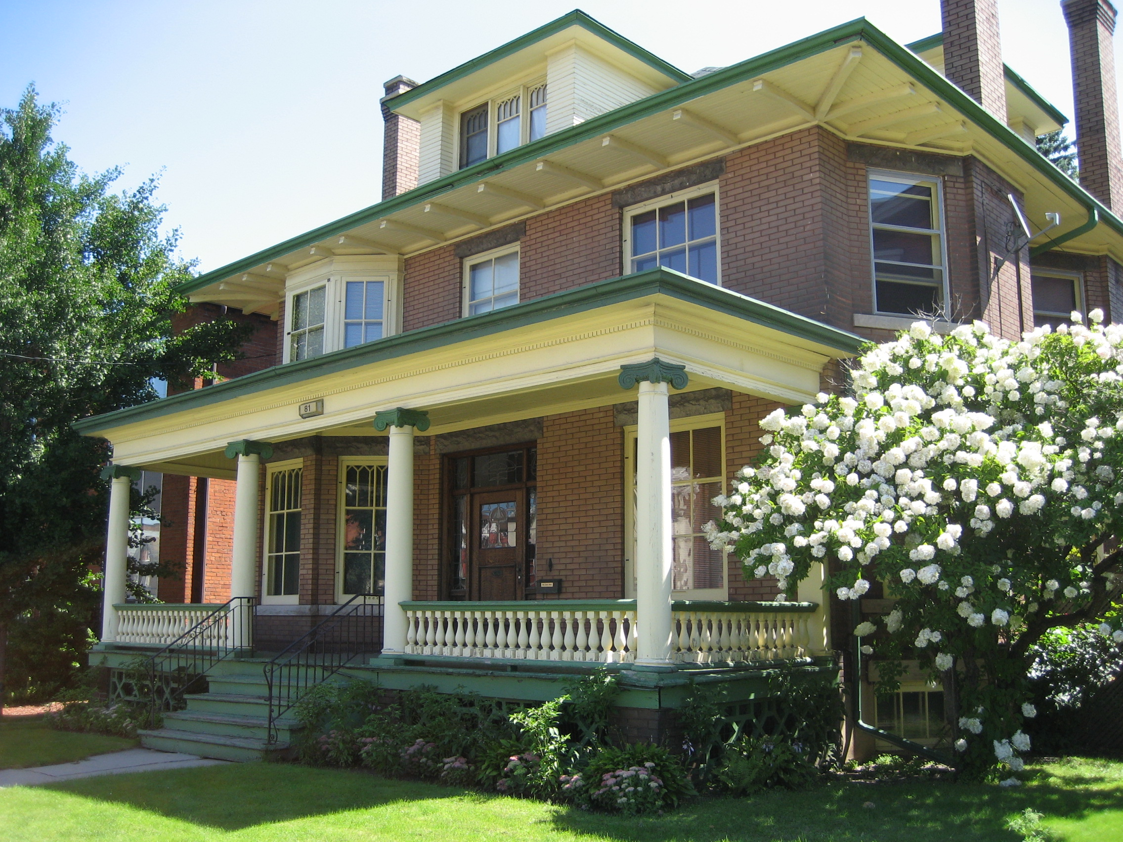 Victoria Avenue, Hamilton, Canada.